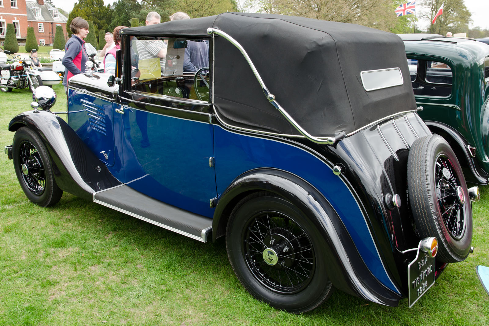 BSA Tickford Coupe Model T10-B 1934(DVLA) no recordCatton Hall Classic Car Show 05/05/2013